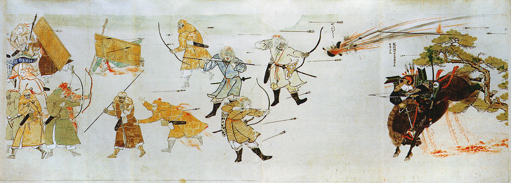 Painting scrolls on the Mongol invasions (Japanese: Mooko shuurai e-kotoba), by Fukuda Taika, 1846 (copy of a 1293 work by an unknown artist). Ink and water colors on paper. Height 47 cm, length of the whole scrolls is 12.12 m (scroll 2) and 11.96 m (scroll 4). Tokyo National Museum, Inv. no. A-1637. The scrolls deal with the deeds of Takezaki Suenaga, who lived in southern Higo (now Matsubase municipality, Kumamoto prefecture) during the Mongol invasions of 1274 and 1281.